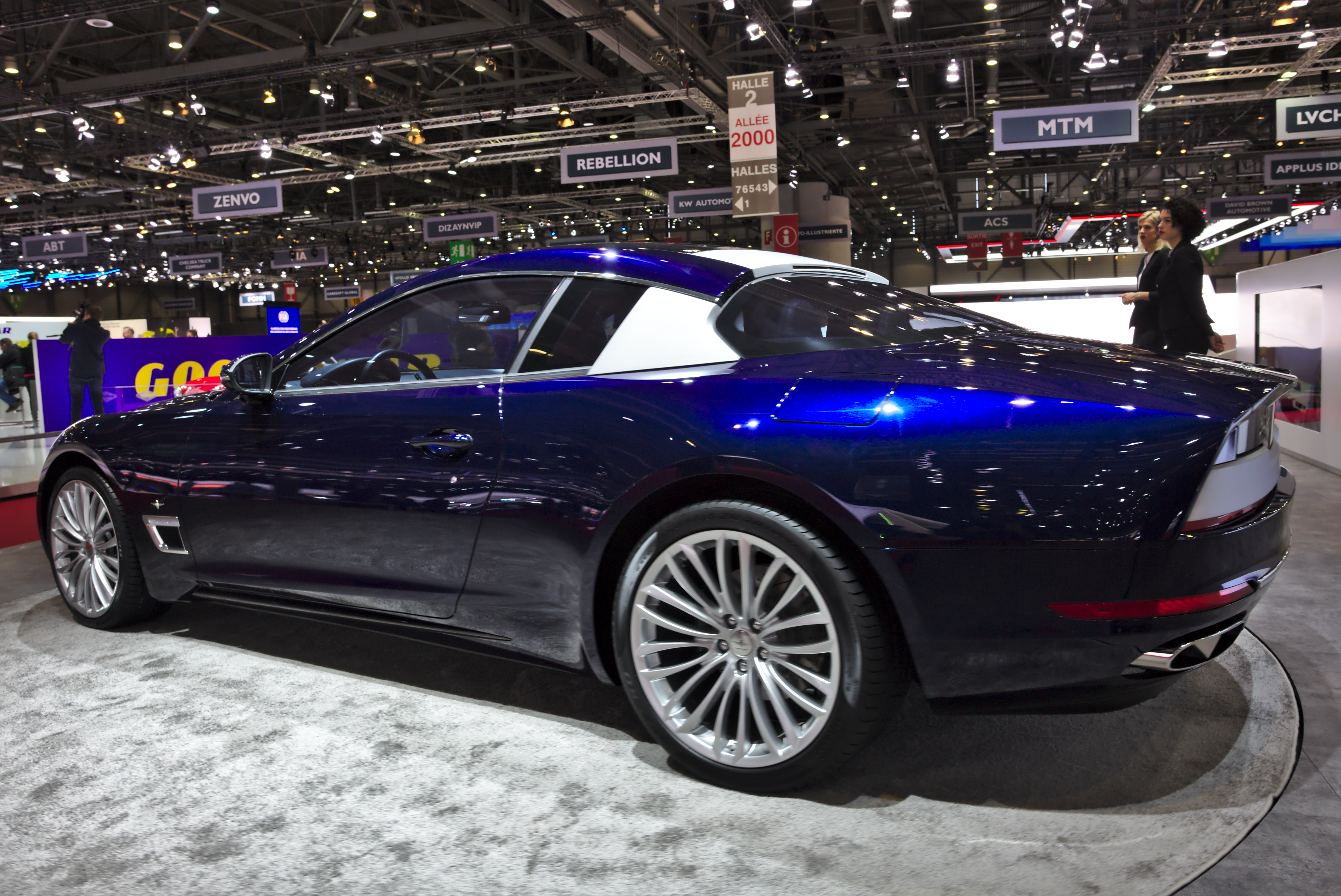 Touring Superleggera Sciàdipersia at Geneva Motorshow 2018